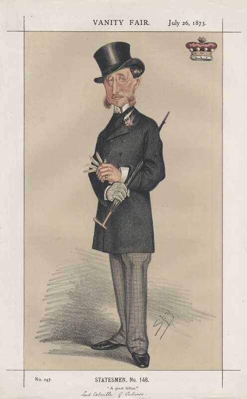 Caricature of Lord Colville of Culross. Caption read "A good fellow".